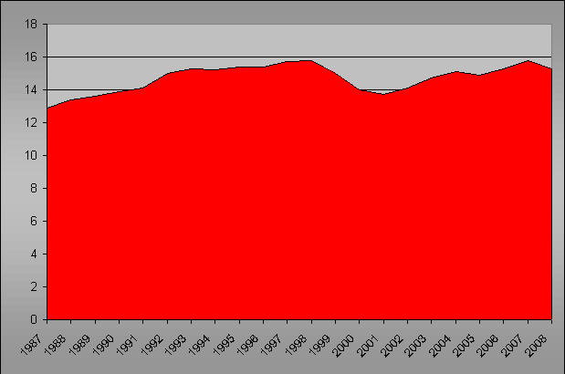 US residents without health insurance in %; U.S. Census bureau: Income, Poverty, and Health Insurance Coverage in the United States: 2007